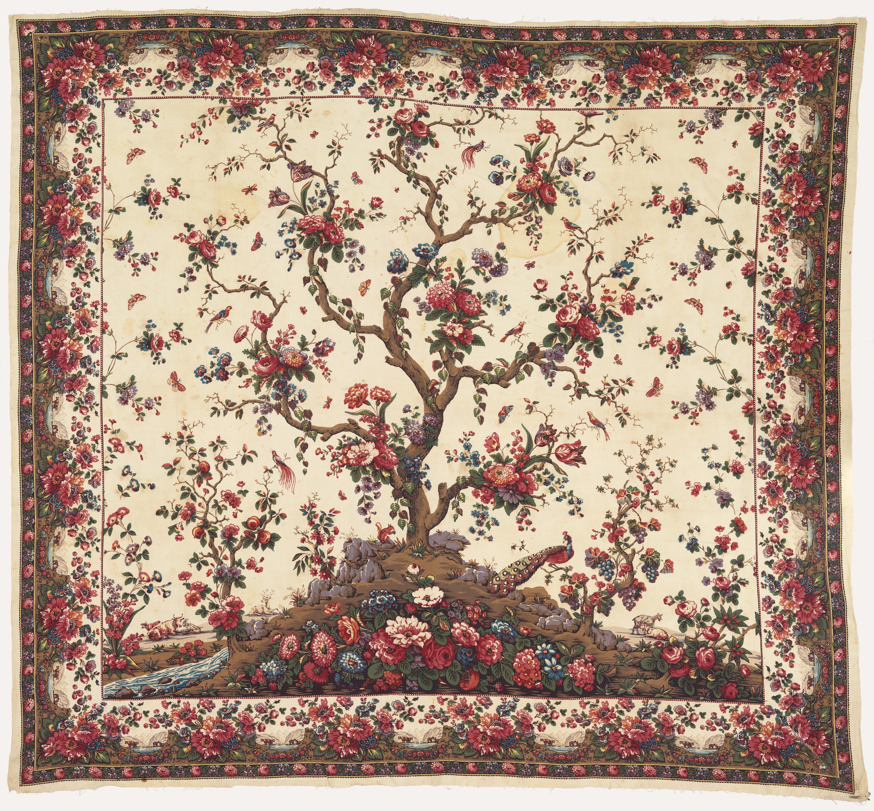 Mezzaro in a multicolored design on a white ground. Center shows a large-scale tree with many different blossoms. Small flanking tree on either side. Floral sprays, insects, birds and animals over the ground. Floral border with small inset landscapes with animals.